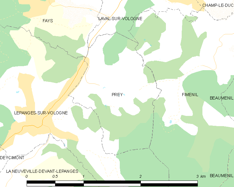 Map of French municipality Prey